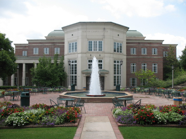 Norton Campus Center, Birmingham-Southern College